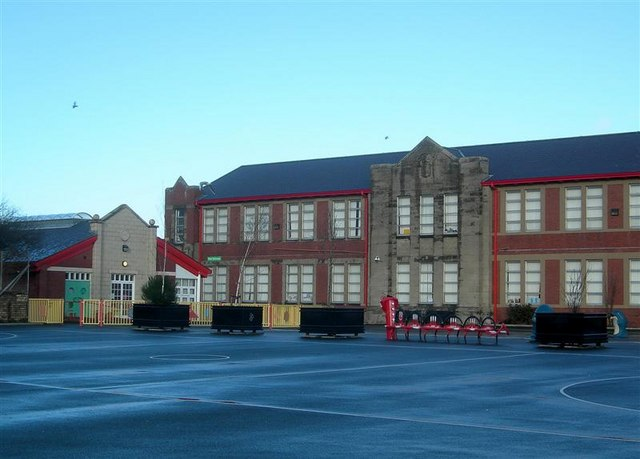 Heathfield Primary School Some interesting play equipment in the front playground of this local authority school.